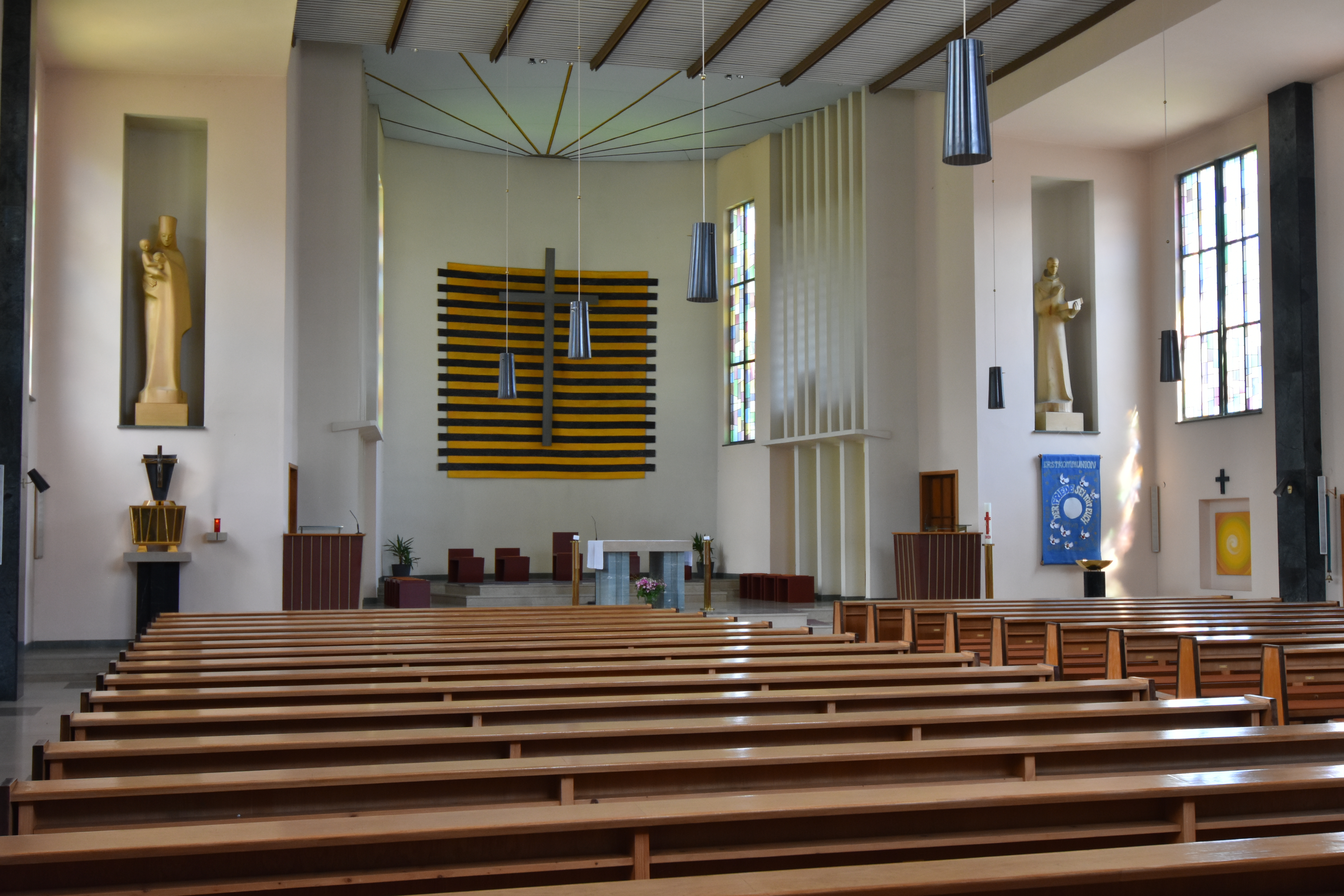 Church Pfarrkirche Stainach Interior